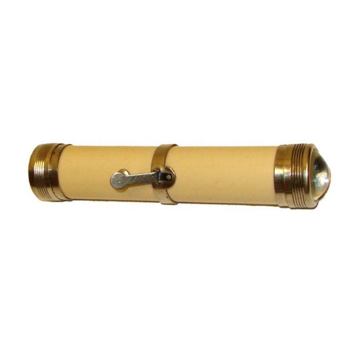 1899 Eveready flashlight